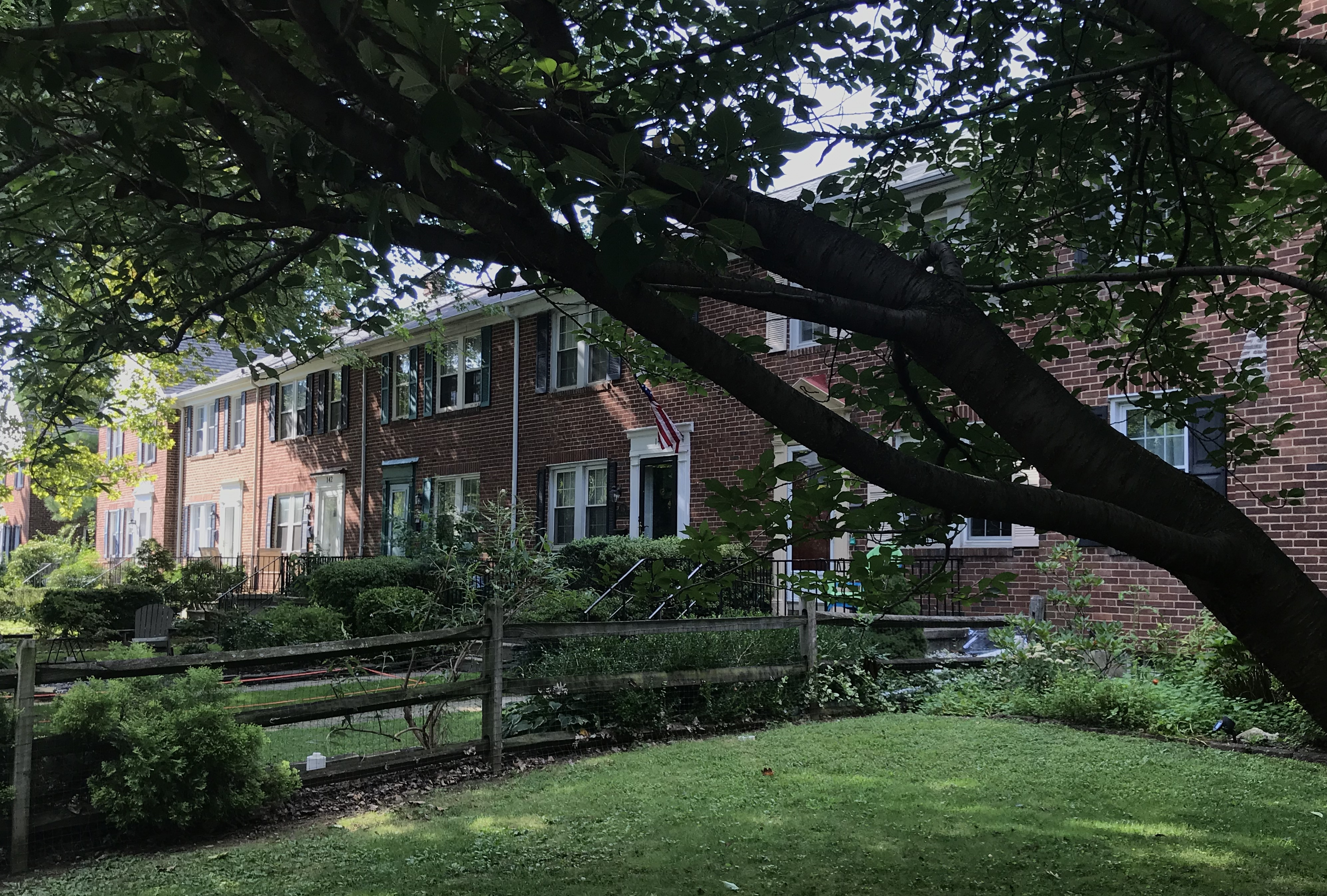 Example of the two-story brick rowhouses characteristic of the Rodgers Forge Historic District. Uniform rows face each other across narrow, one-way streets, with back yards abutting to alleyways.